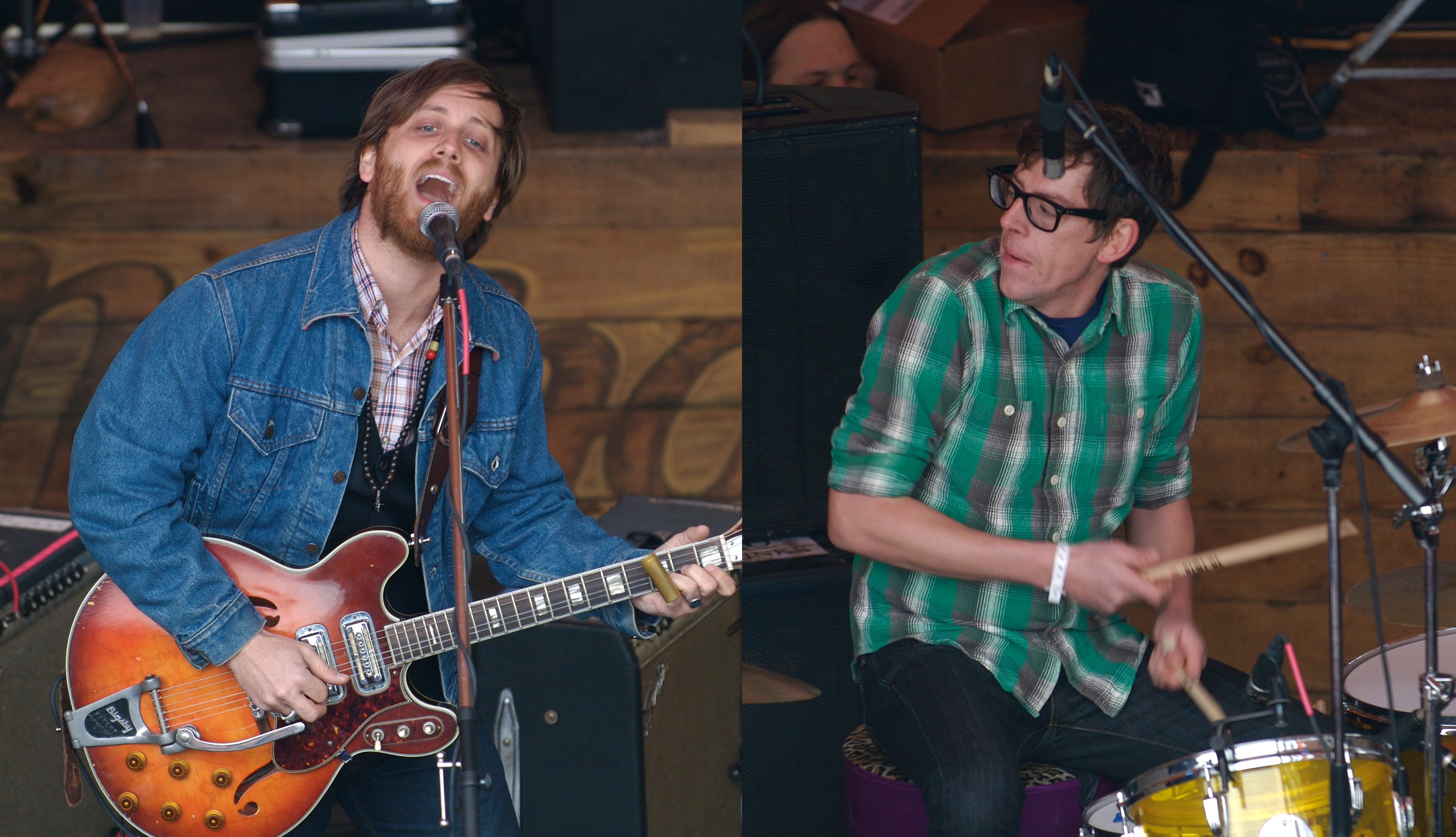 The Black Keys performing at the SXSW Music Festival in 2010